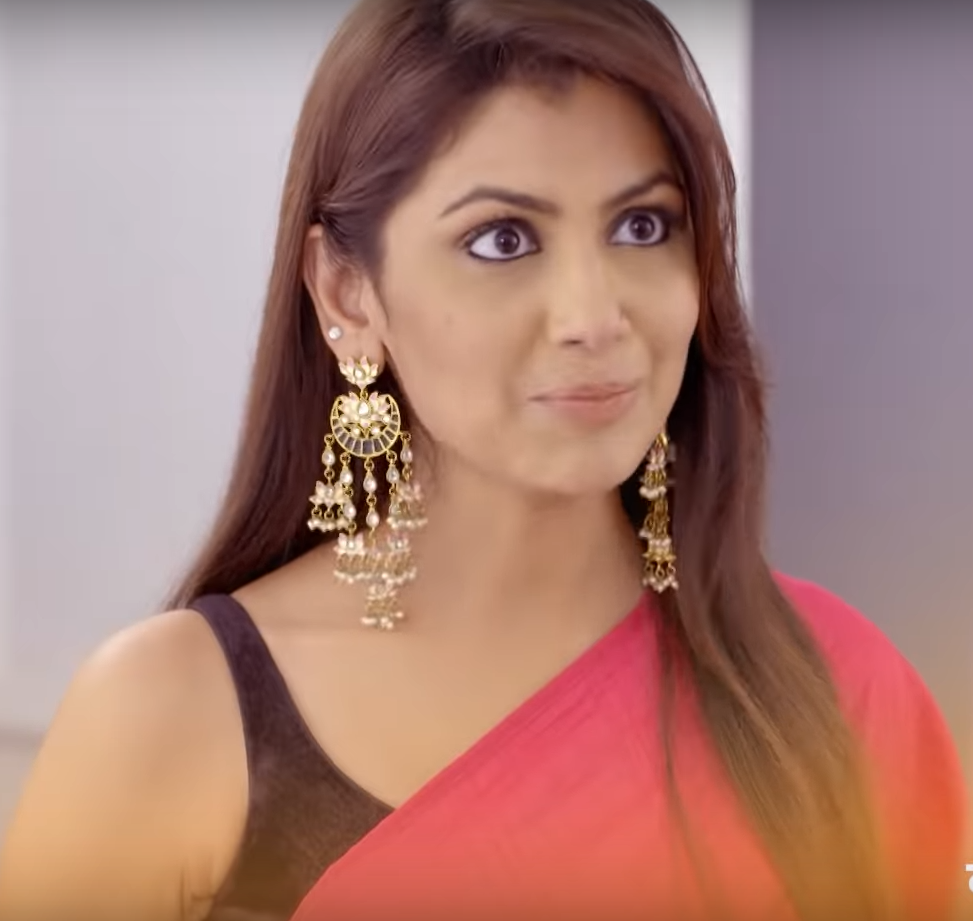 Sriti Jha Snapshot